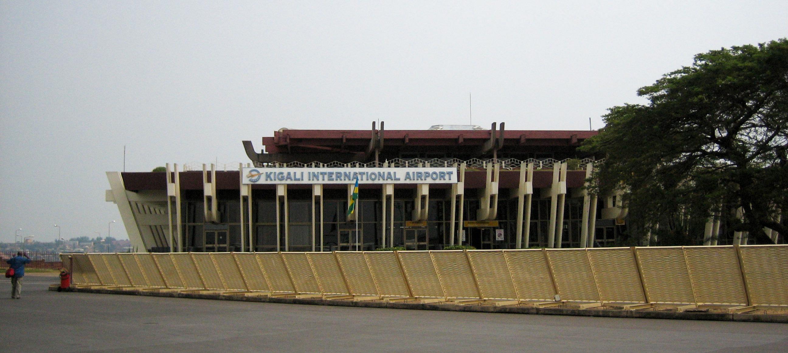 Kigali International Airport